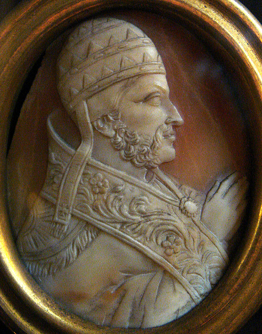 Pope Nicholas III Cameo